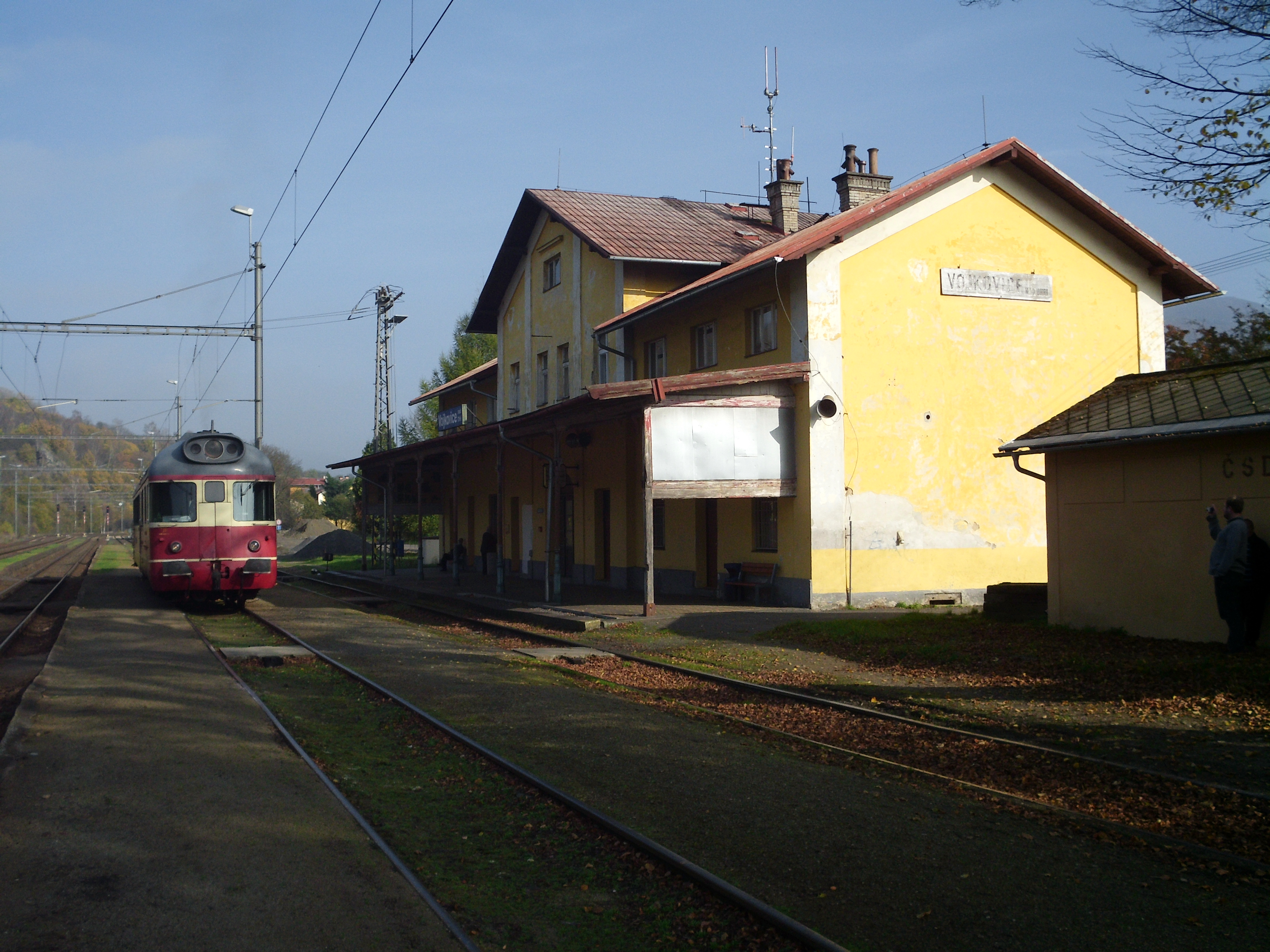 Railcar M286.1008 of KŽC Doprava at a station in Vojkovice nad Ohří.